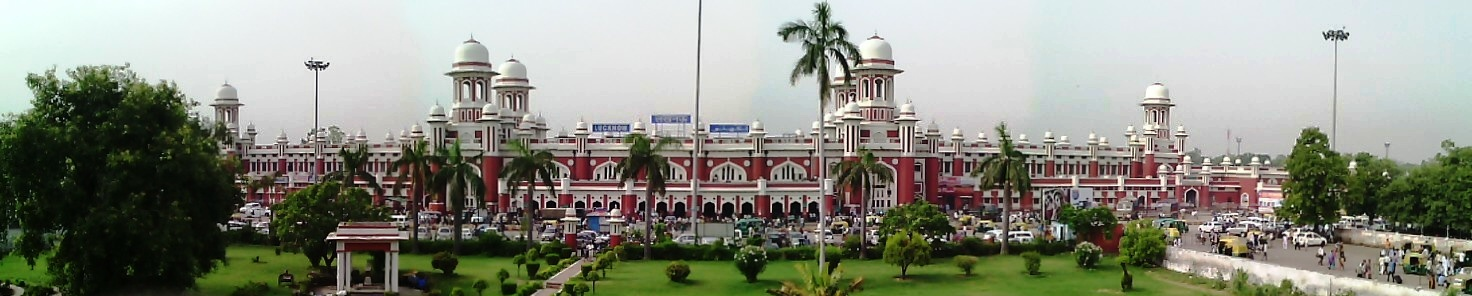 panoramic view of lucknow station